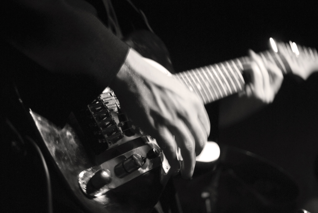 An electric guitarist (detail - black and white).